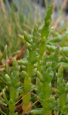 A Digital Photograph of Norfolk Samphire(Saliconia Europaea)